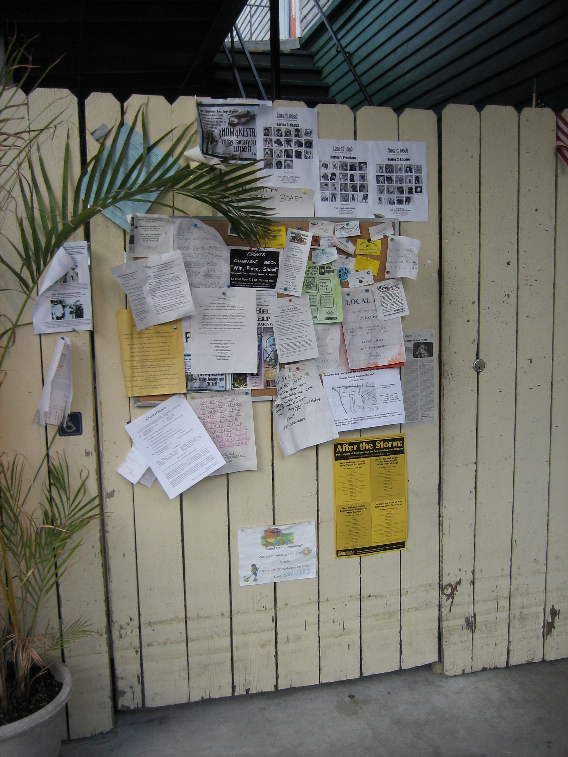 New Orleans after Hurricane Katrina: Fence beside coffee shop just off Esplanade Ridge in the Bayou St. John neighborhood. Area experienced moderate flooding; note lines of long standing water still visible on fence. Though not officially open while being renovated from flood damage, Fair Grinds Coffee House has been a neighborhood meeting place, with notices posted on the fence gate. Photo by Infrogmation January 2006